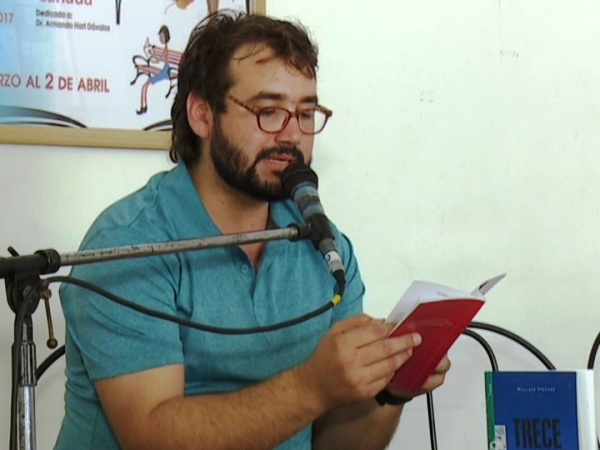 Presentación y Lectura